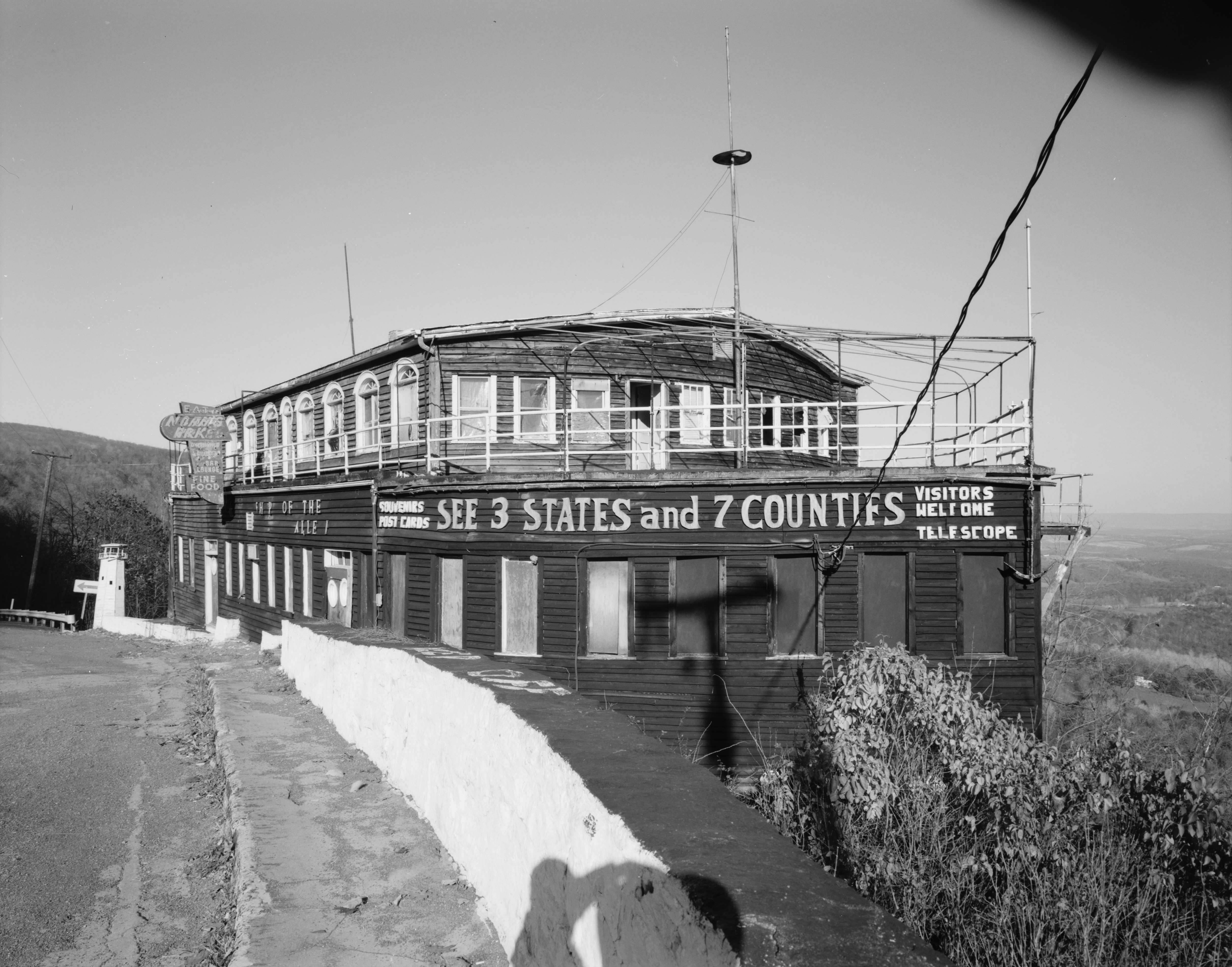 S. S. Grand View Point Hotel, also known as Grand View Point Hotel, S.S. Grand View Ship Hotel, or Ship Hotel. Located on US Route 30 (Lincoln Highway), Juniata Township, Bedford County, Pennsylvania. Built 1932, destroyed by fire in 2001.